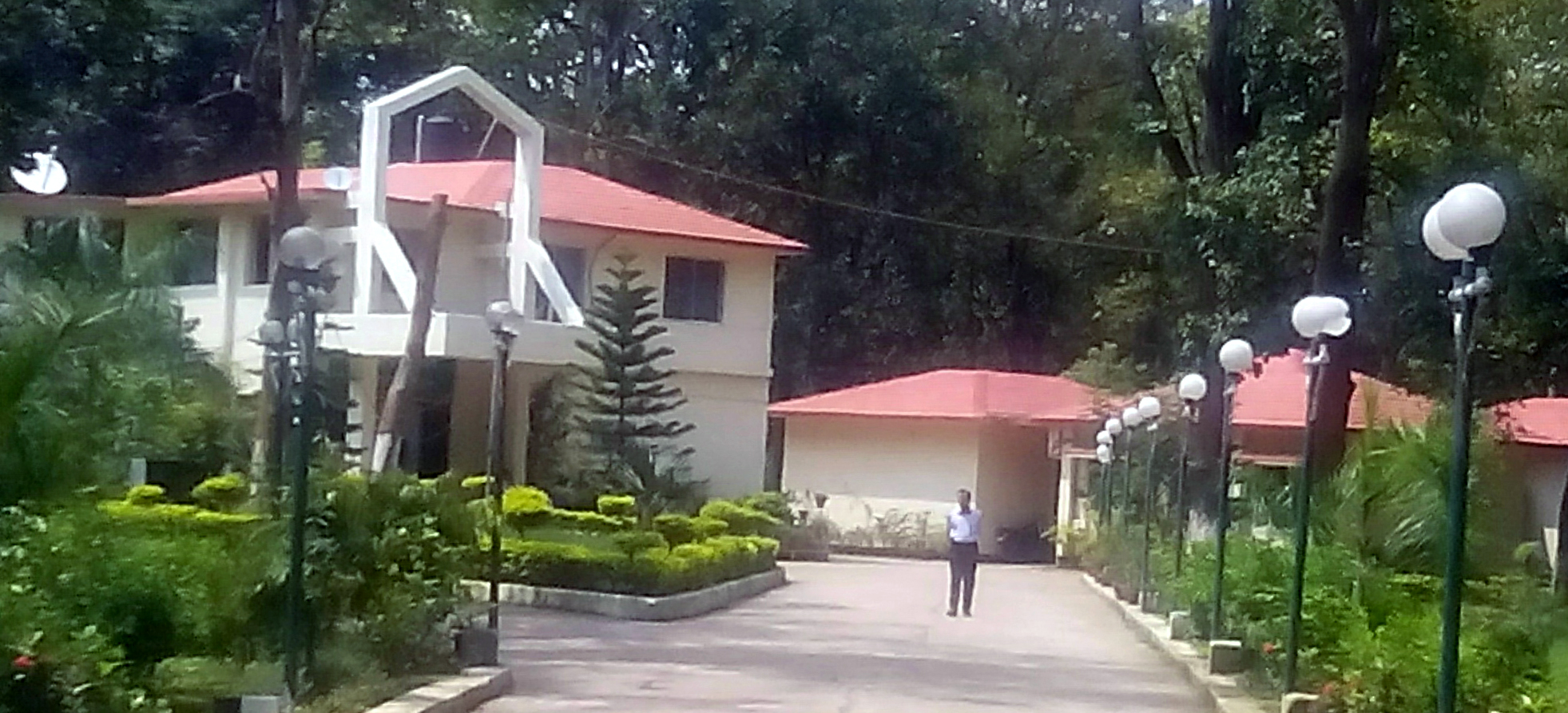 Inner view of the campus of Central University of Jharkhand